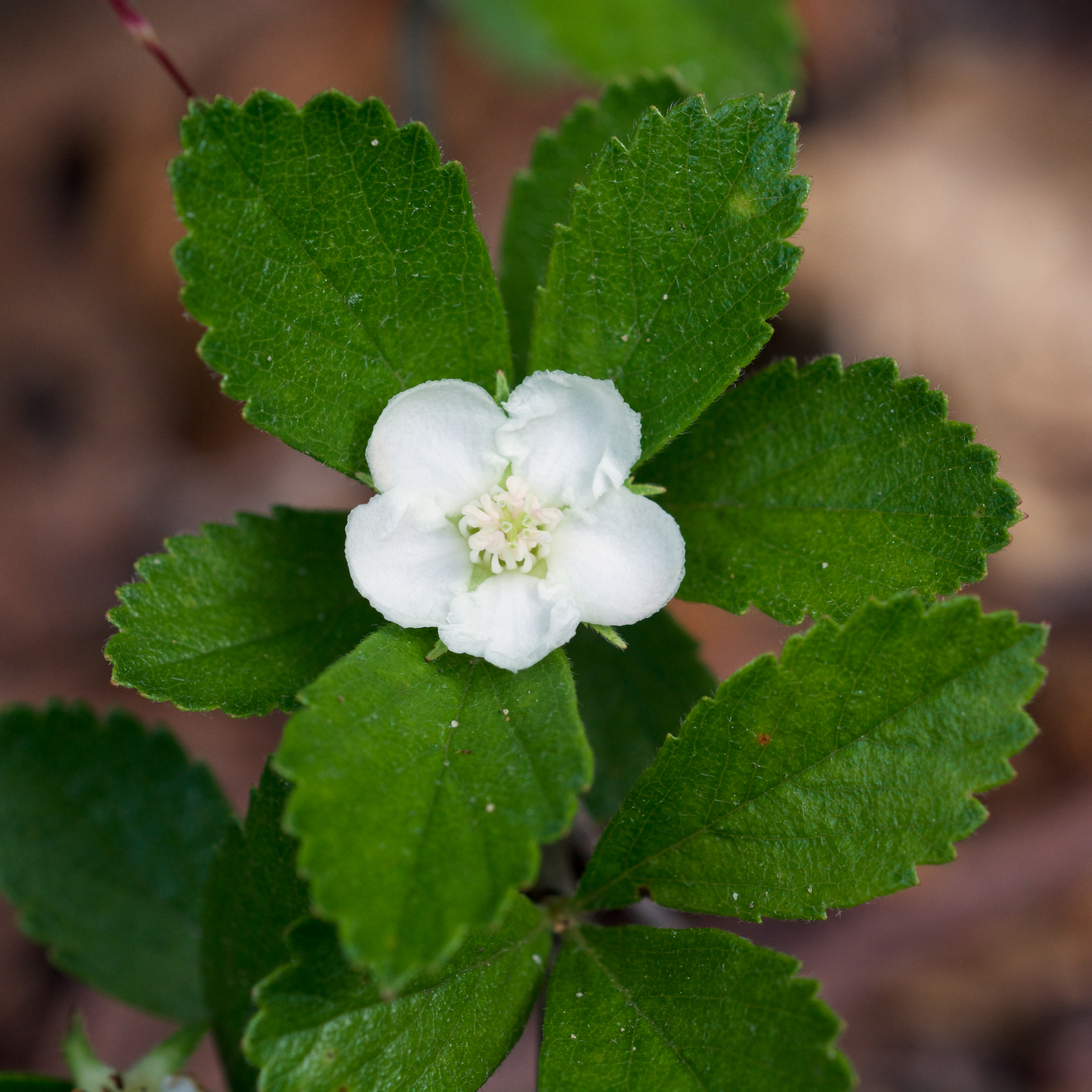 Species from eastern North America south of the Great Lakes Common name: Dwarf Hawthorn Photographed at Poison Springs Natural Area, Ouachita County, Arkansas